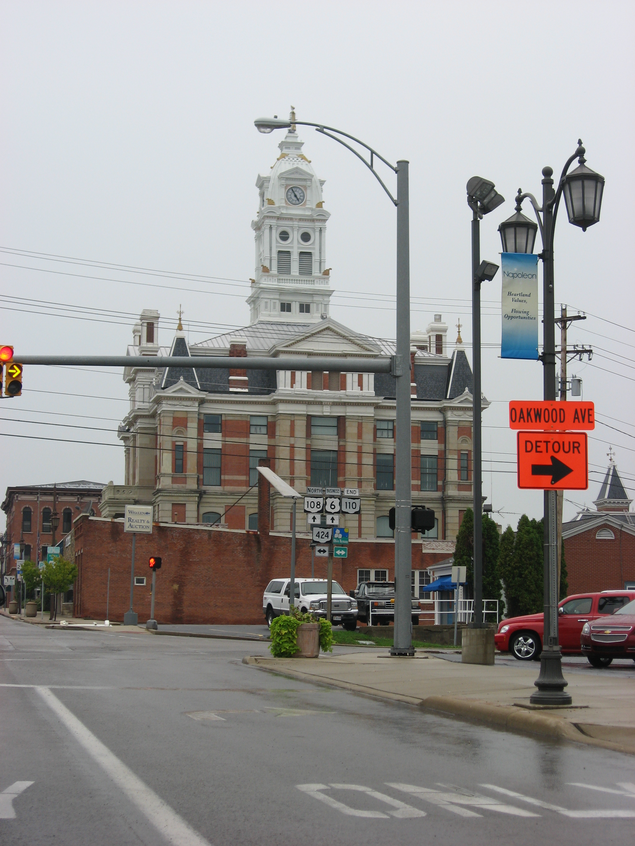 Front of the Henry County Courthouse, located at the intersection of Perry and Washington Streets in downtown Napoleon, Ohio, United States. Built in 1880, the courthouse is listed on the National Register of Historic Places.